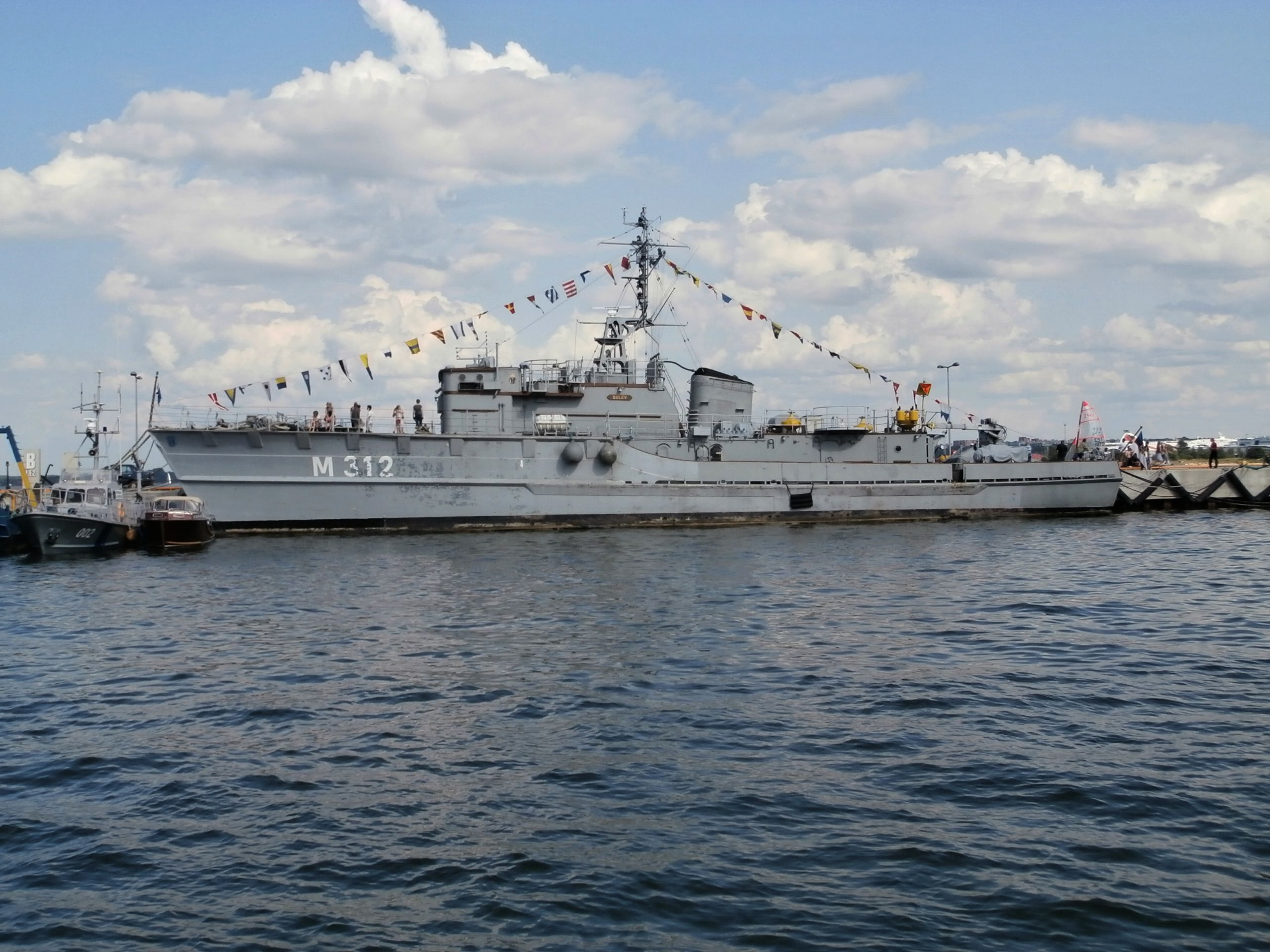 M312 Sulev Port Side Lennusadam Tallinn 14 July 2013 (boats 002 and VLC432 in the foreground on the left)